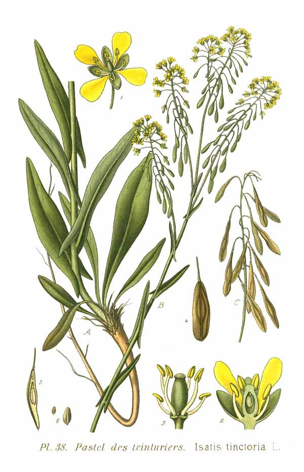 Isatis tinctoria L.